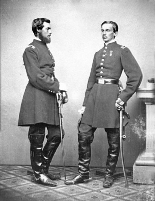 Louis Philippe Albert d'Orléans, comte de Paris & his brother Robert, duc de Chartres.